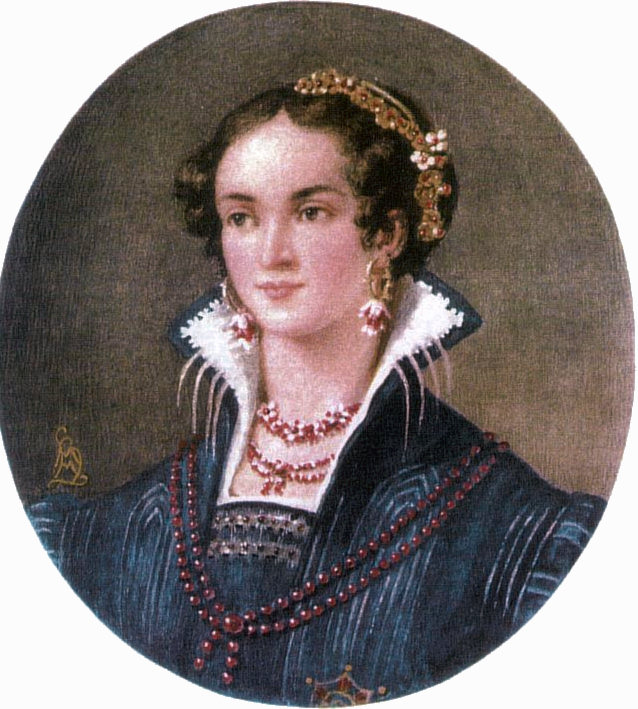 Portrait of Laura Martinozzi (1639-1687), after an oil painting in the monastery of the Order of the Visitation of Holy Mary in Modena and an old miniature